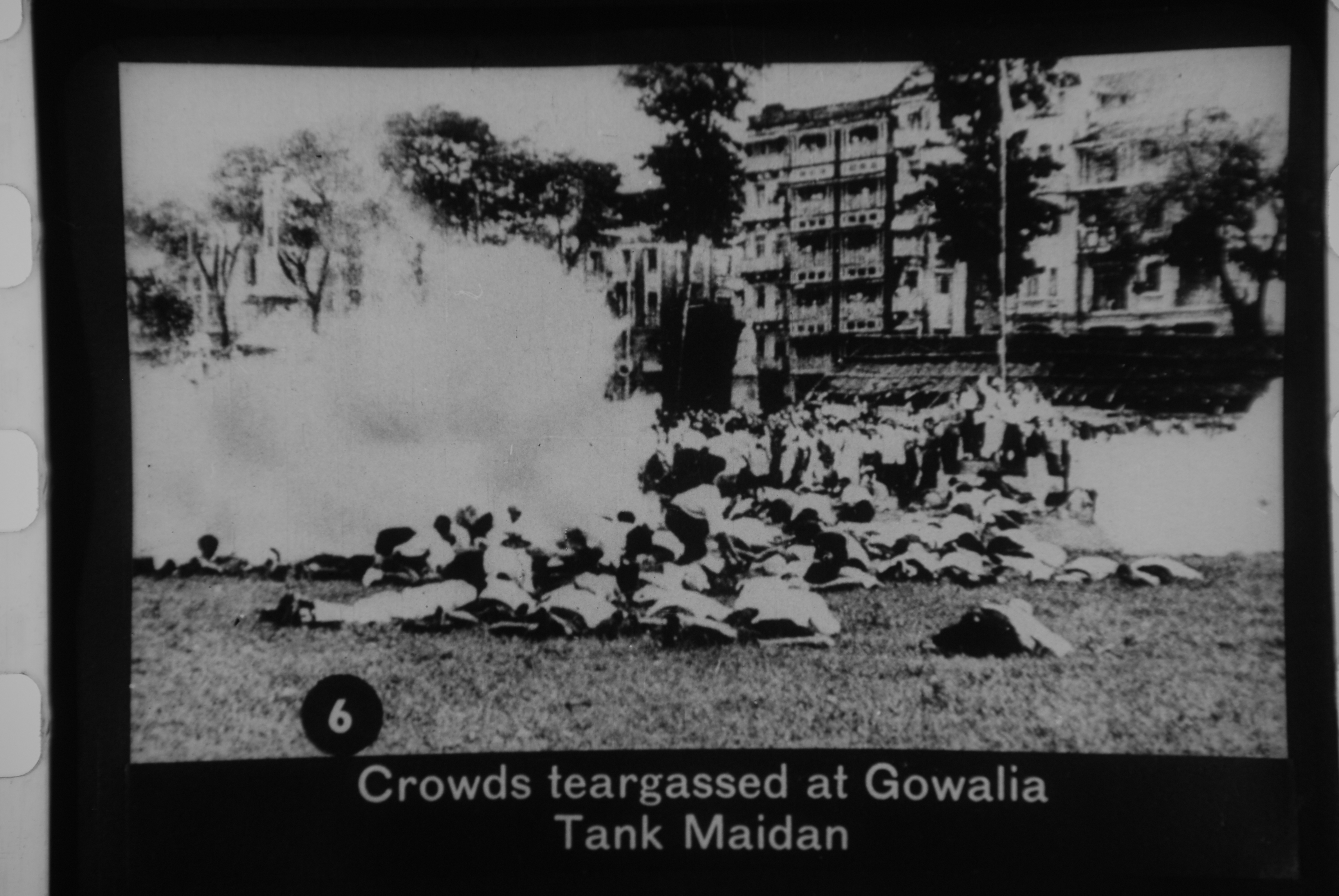 People teargassed at Gowalia Tank Maidan, Bombay, August 1942